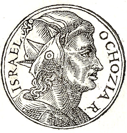 Ahaziah of Israel was king of Israel and the son of Ahab and Jezebel.